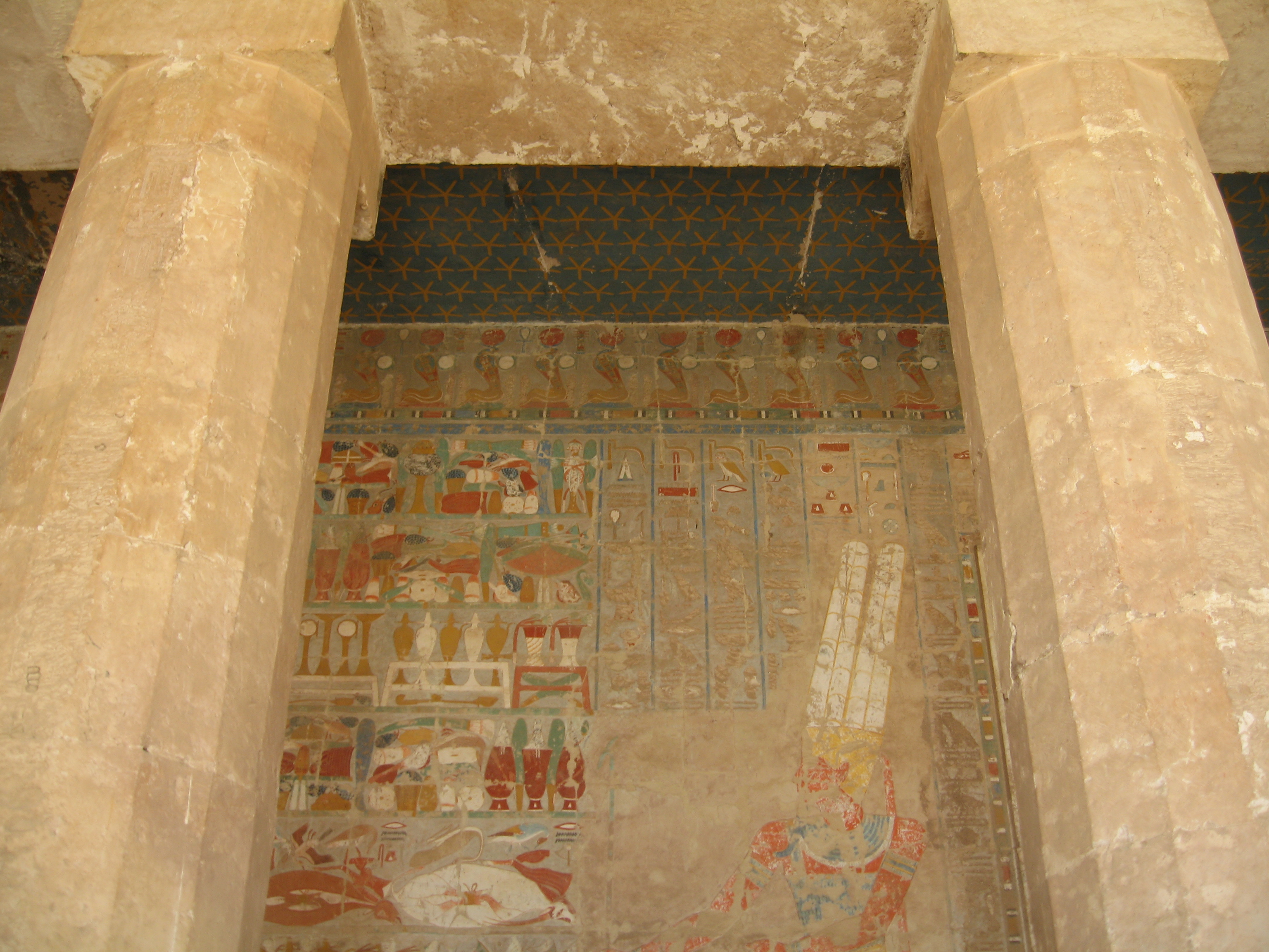 Fresco on the Hatchepsout Temple (Deir el-Bahari, Egypt)